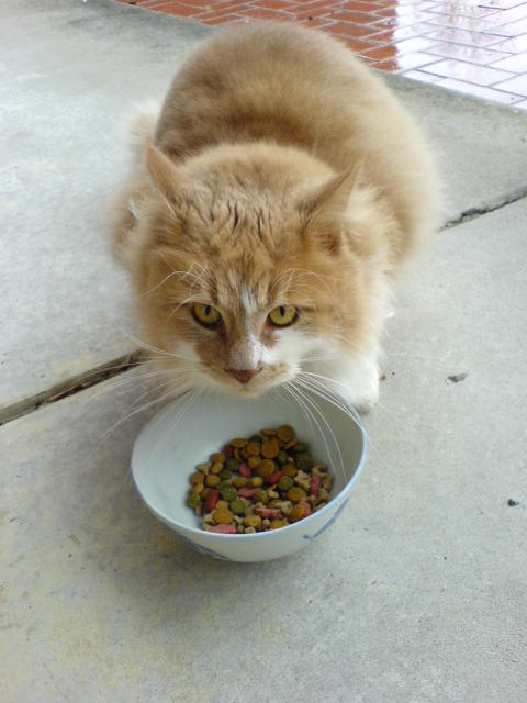 cat and dry food